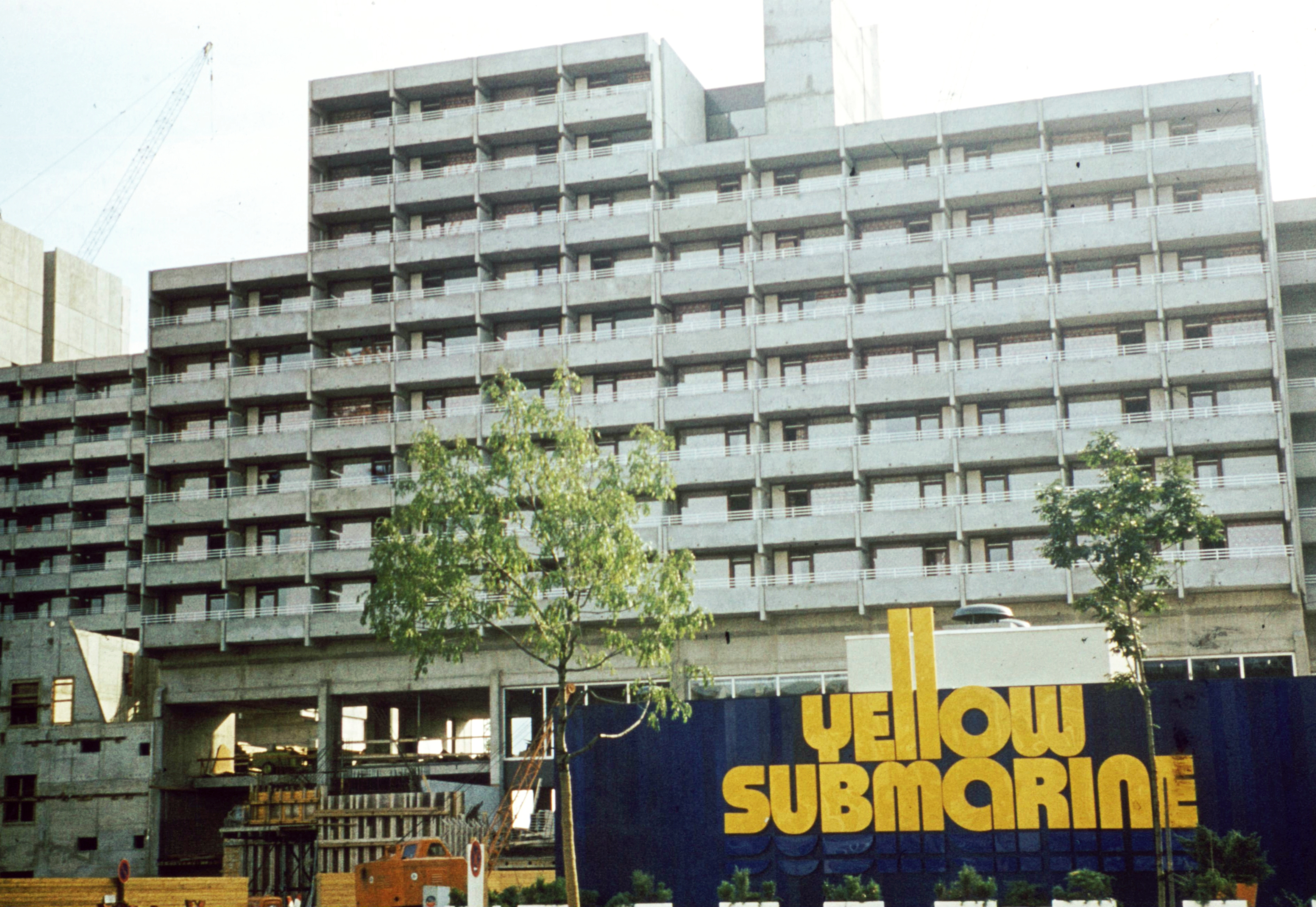 Highrise building of the Schwabylon complex and the Yellow Submarine underwater discotheque under construction in Munich's Schwabing district in 1972. The Yellow Submarine with Hotel Holiday Inn was openend in April 1971. The whole building complex was completed in November 1973.